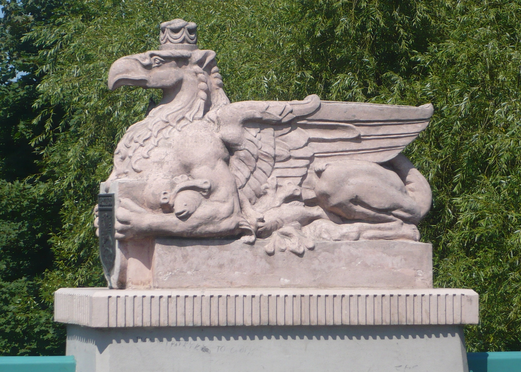 Griffin on bridge in Gryfice, Poland